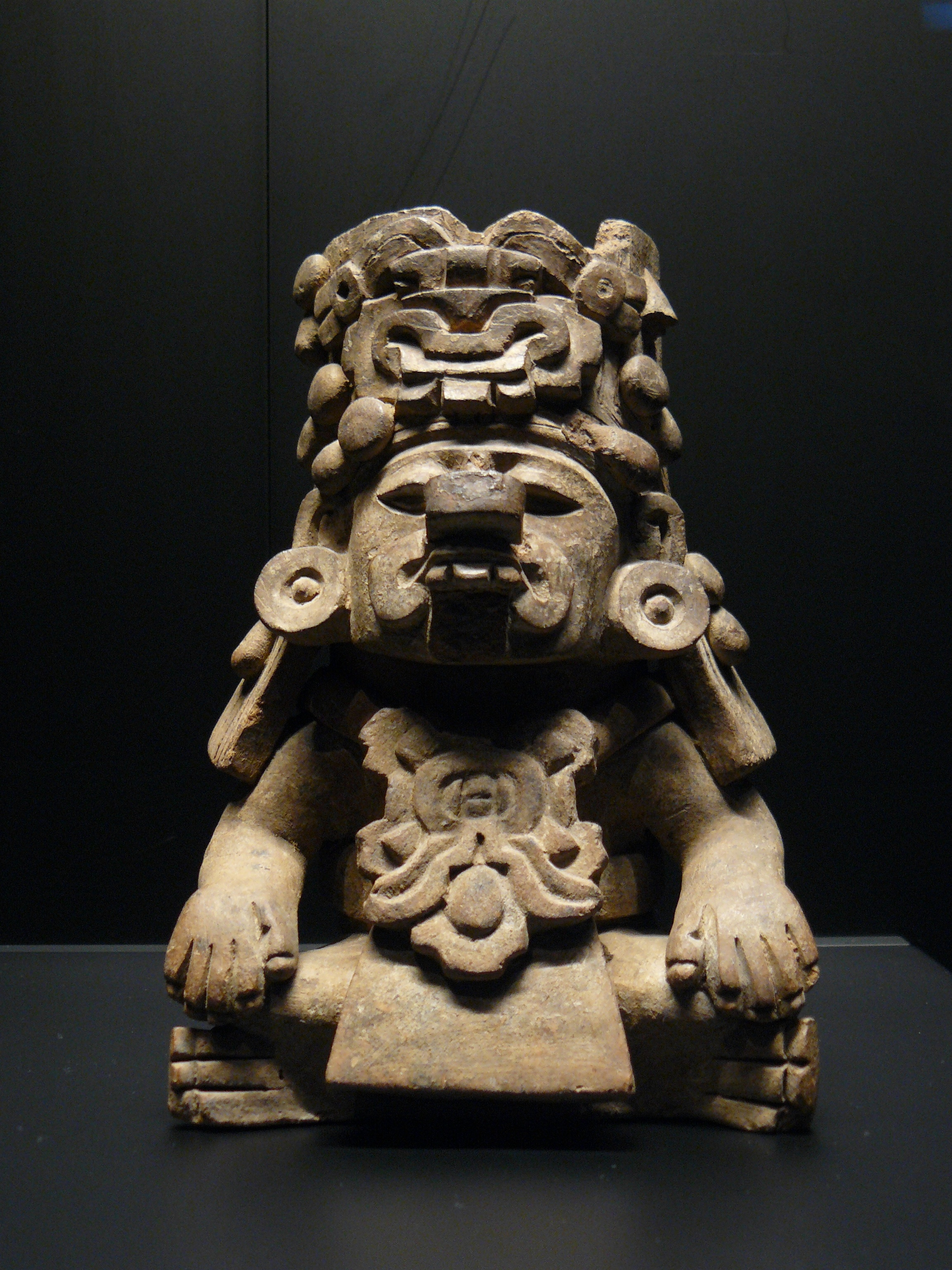 Effigy of the Zapotec rain-god Cocijo